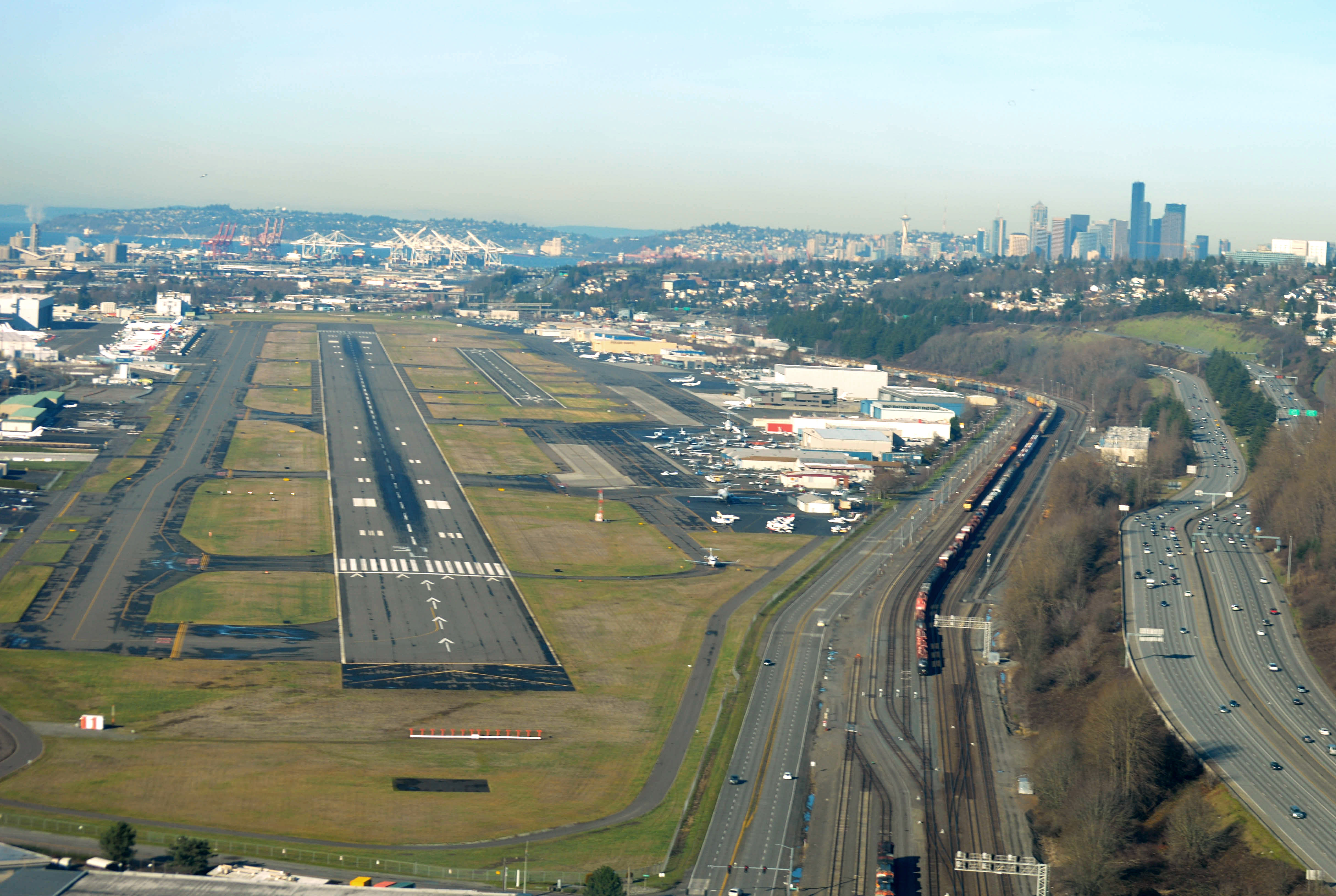 Boeing Field with the Seattle skyline in the distance.